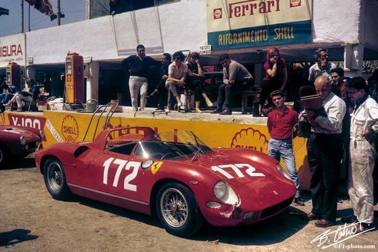 Entry #172 at Targa Florio on Sunday 5 May 1963 was the 1963 Ferrari 250 P s/n 0812 driven by Willy Mairesse and Ludovico Scarfiotti. They may not be in this picture, but ended in no place because they did not finish.[1] The signature in lower right corner is that of Bernard Cahier.